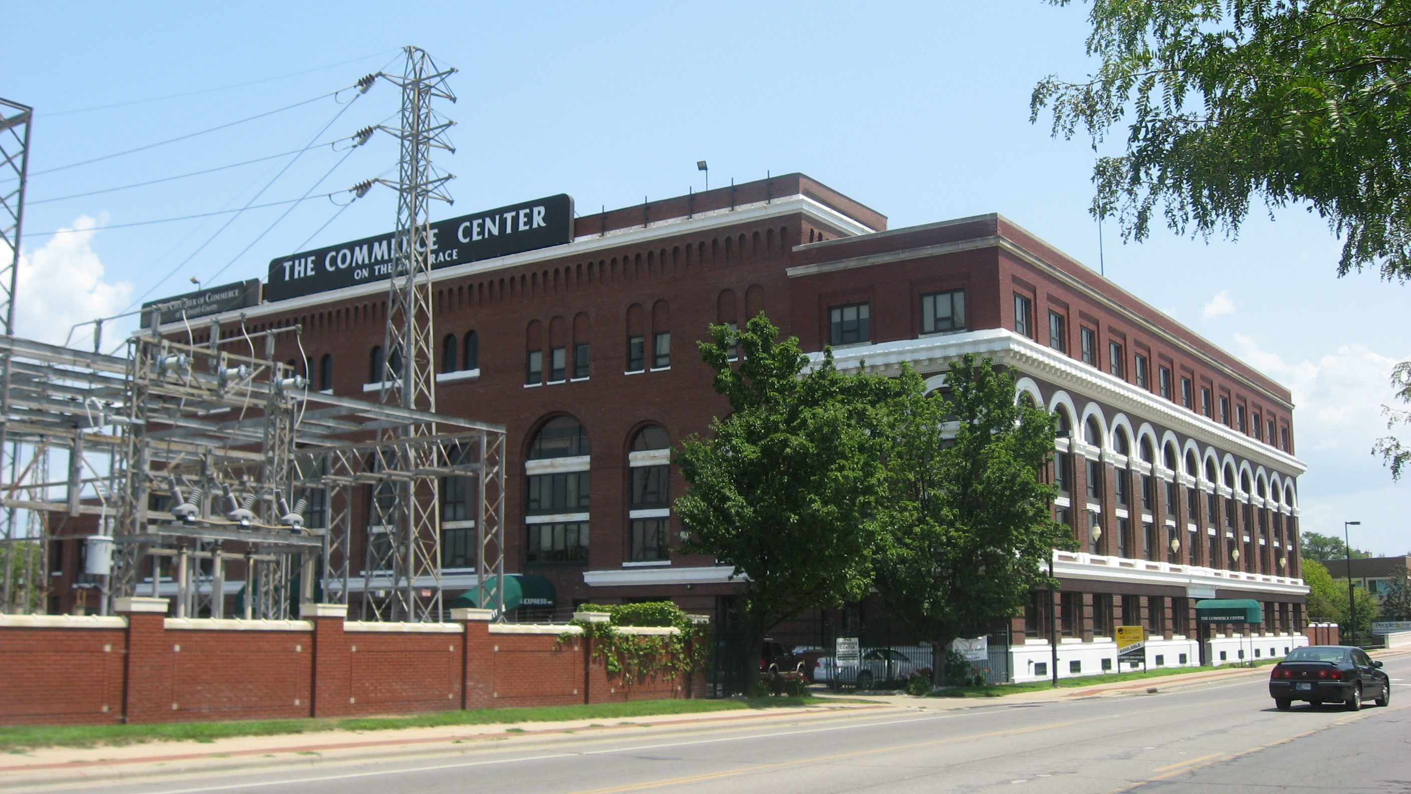 Western side and southern front of the former I and M Electric Co. Building-Transformer House and Garage, located at 401 E. Colfax Avenue and 312 E. LaSalle Street in South Bend, Indiana, United States. Built in 1911 and since converted into apartments, it is listed on the National Register of Historic Places.